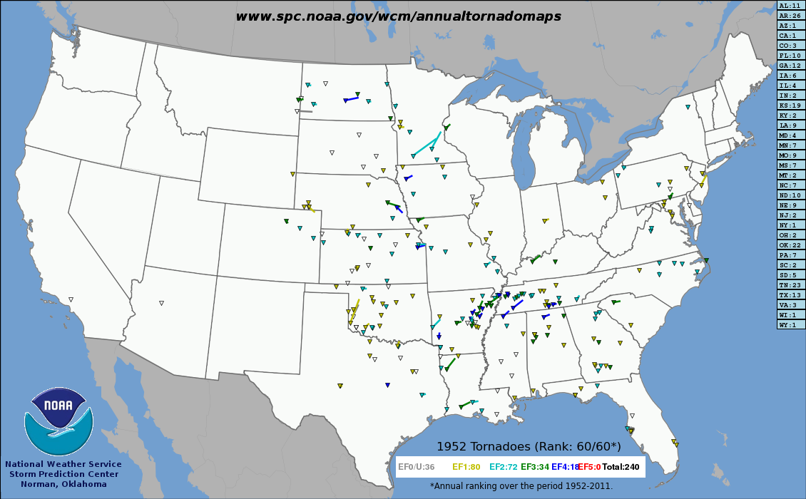 Track of every U.S. tornado from 1952.